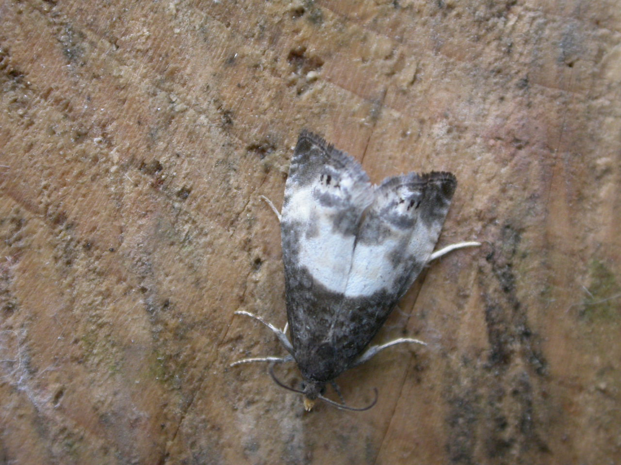 Notocelia cynosbatella, to MV light, Hellerup, Denmark, 22 May 2003